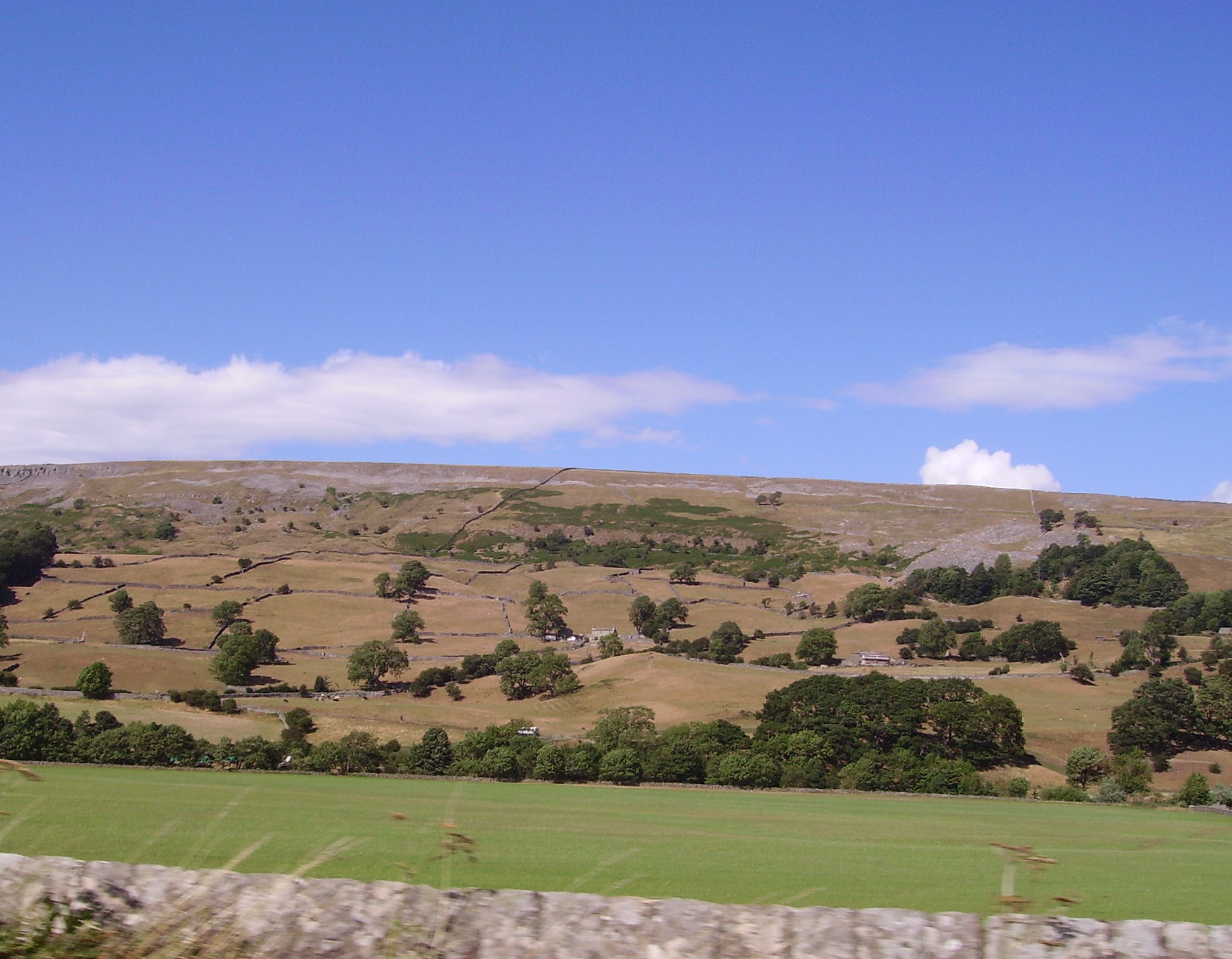 Swaledale in North Yorkshire, United Kingdom